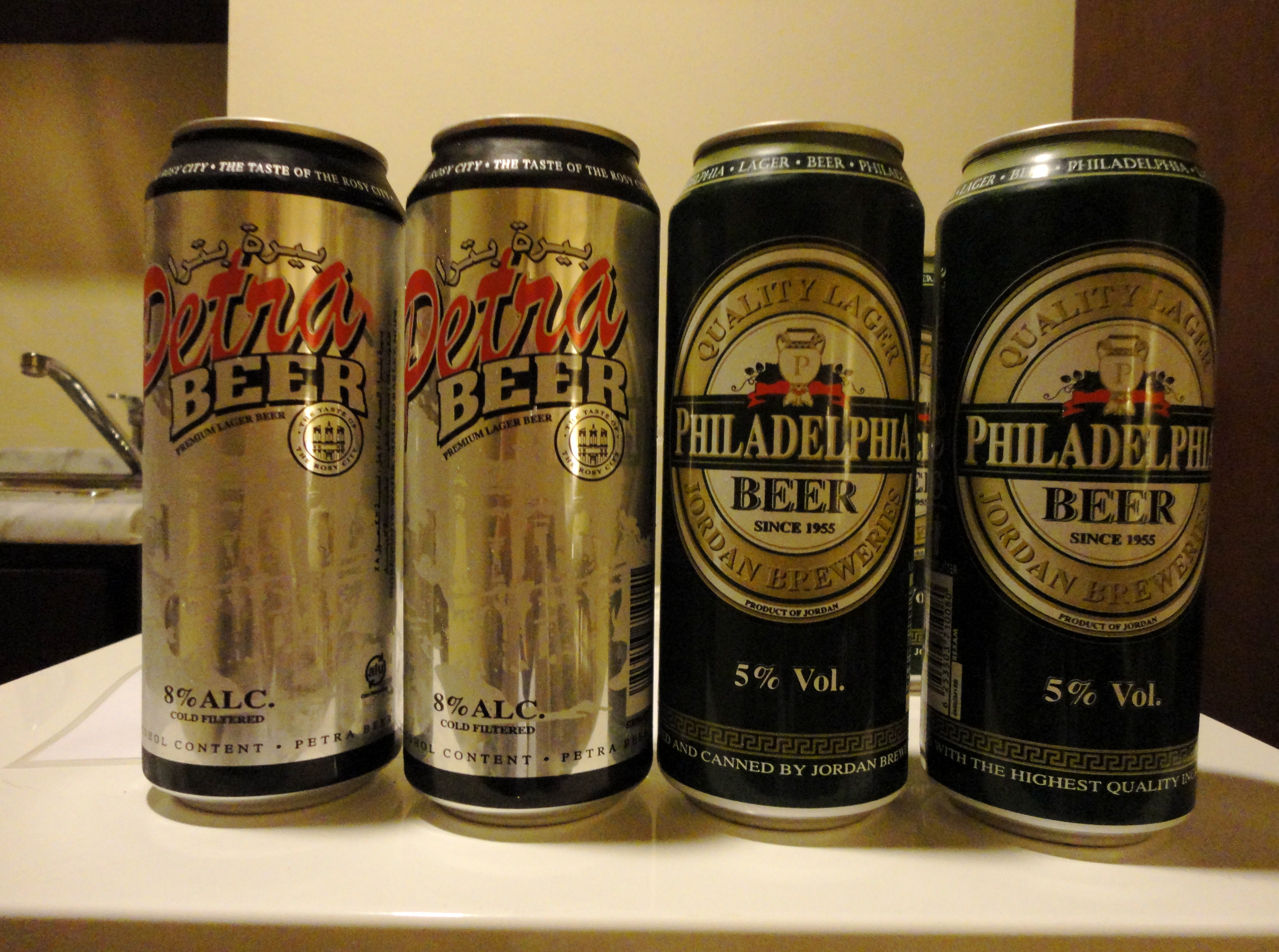 Local strong (lager) beers of Jordan